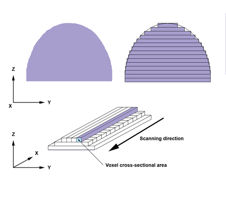 rp slicing